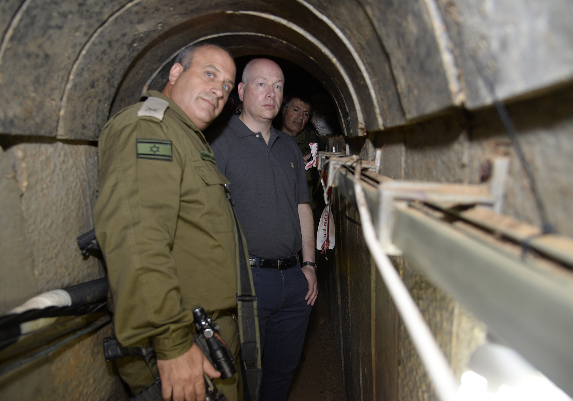 President Trump's Special Representative for International Negotiations Jason Greenblatt toured the Gaza periphery area, visited Ziv Hospital in Safed, and the Old City of Jerusalem, August 29-30, 2017.